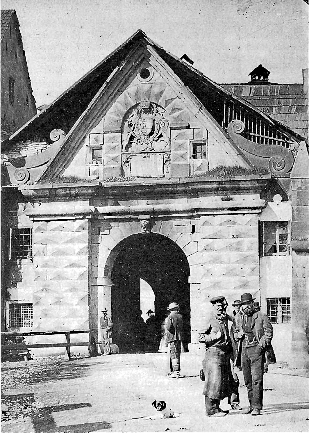 City gate “Voelkermarkter Tor” of the old city wall (torn down in 1809), 6th district "Voelkermarkter Vorstadt", Carinthia`s capital Klagenfurt, Carinthia, Austria, EU